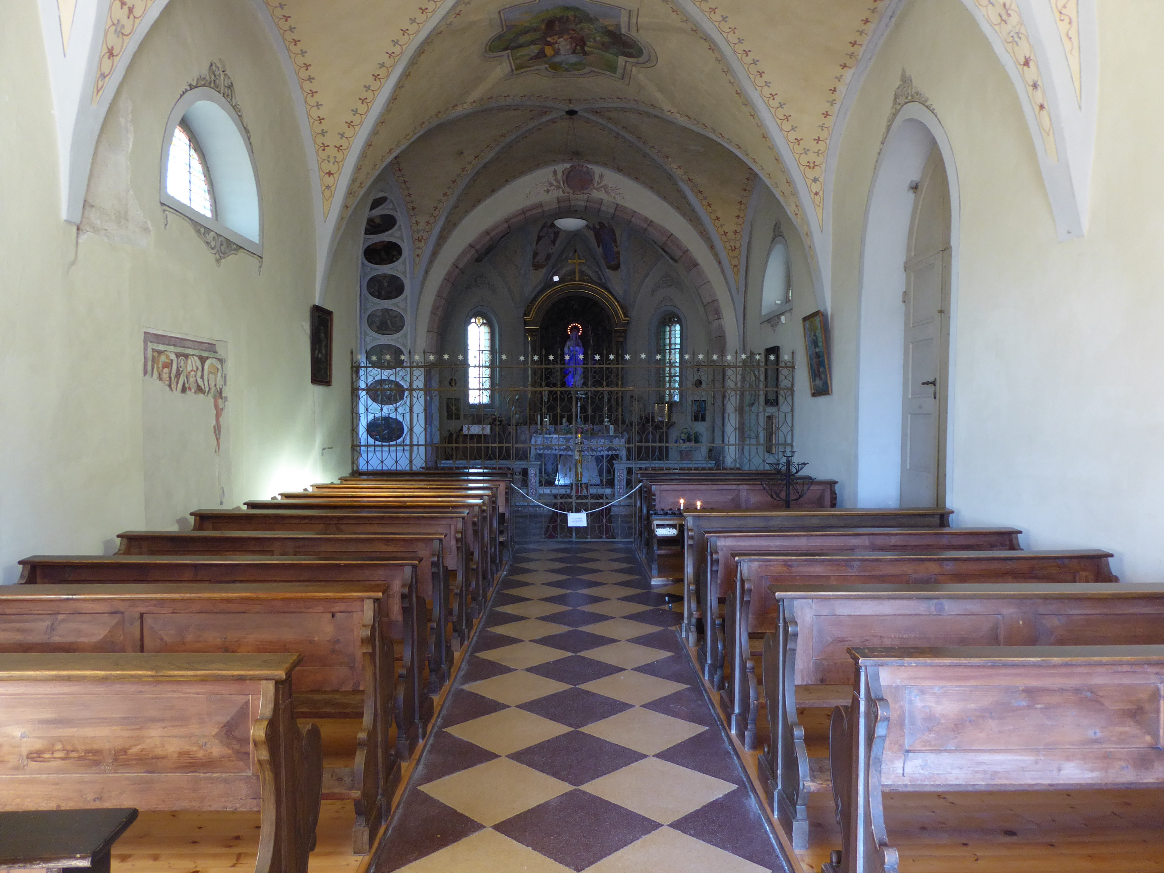 Castello di Fiemme (Castello-Molina di Fiemme, Trentino, Italy) - Our Lady of Lourdes church - Interior